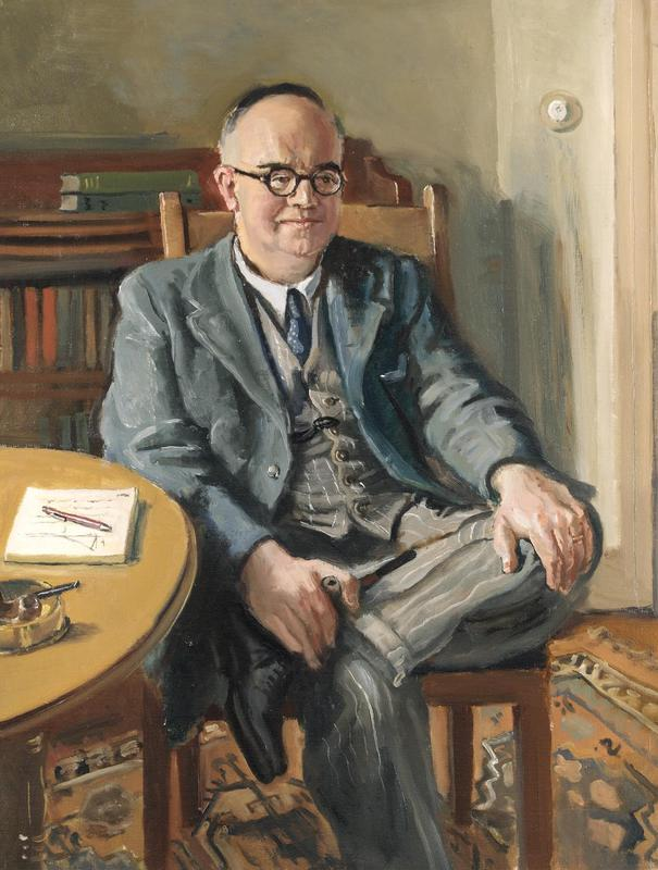 Full length seated portrait of Dr Stradling beside a desk with a bookcase behind.